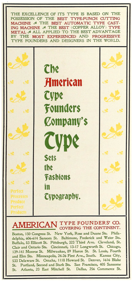 advertisement for American Type Founders Co. from "Bradley His Book" (Springfield, Massachusetts, USA)